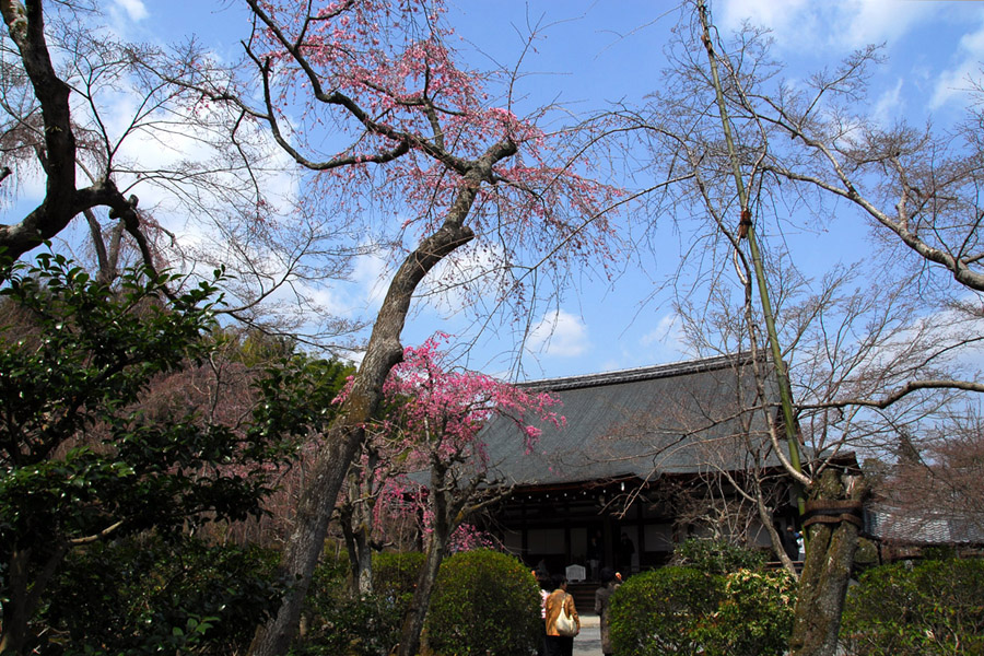 Tenryū-ji is an important Buddhism temple located in Sogano area, west of Kyoto, Japan. It was registered as an UNESCO World Heritage Site as part of the Historic Monuments of Ancient Kyoto. Alongside the historical buildings, Tenryu-Ji is also famous for its sakura (cherry blossom), which is of a different variety and always blossoms earlier than the sakura in other places within Kyota.